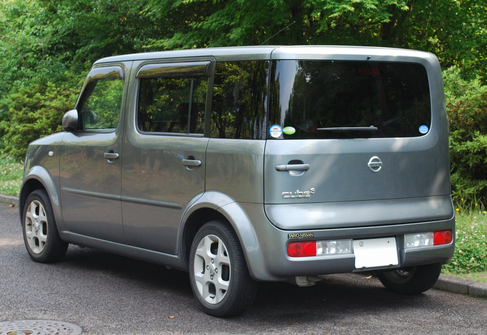 NIssan Cube³ (2005/5 - 2006/12)